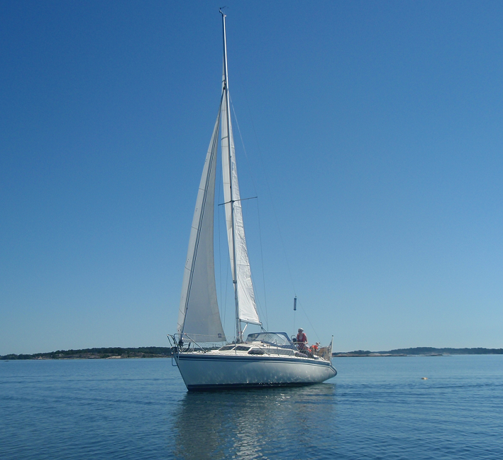 Guyline 95 Finnish sailboat